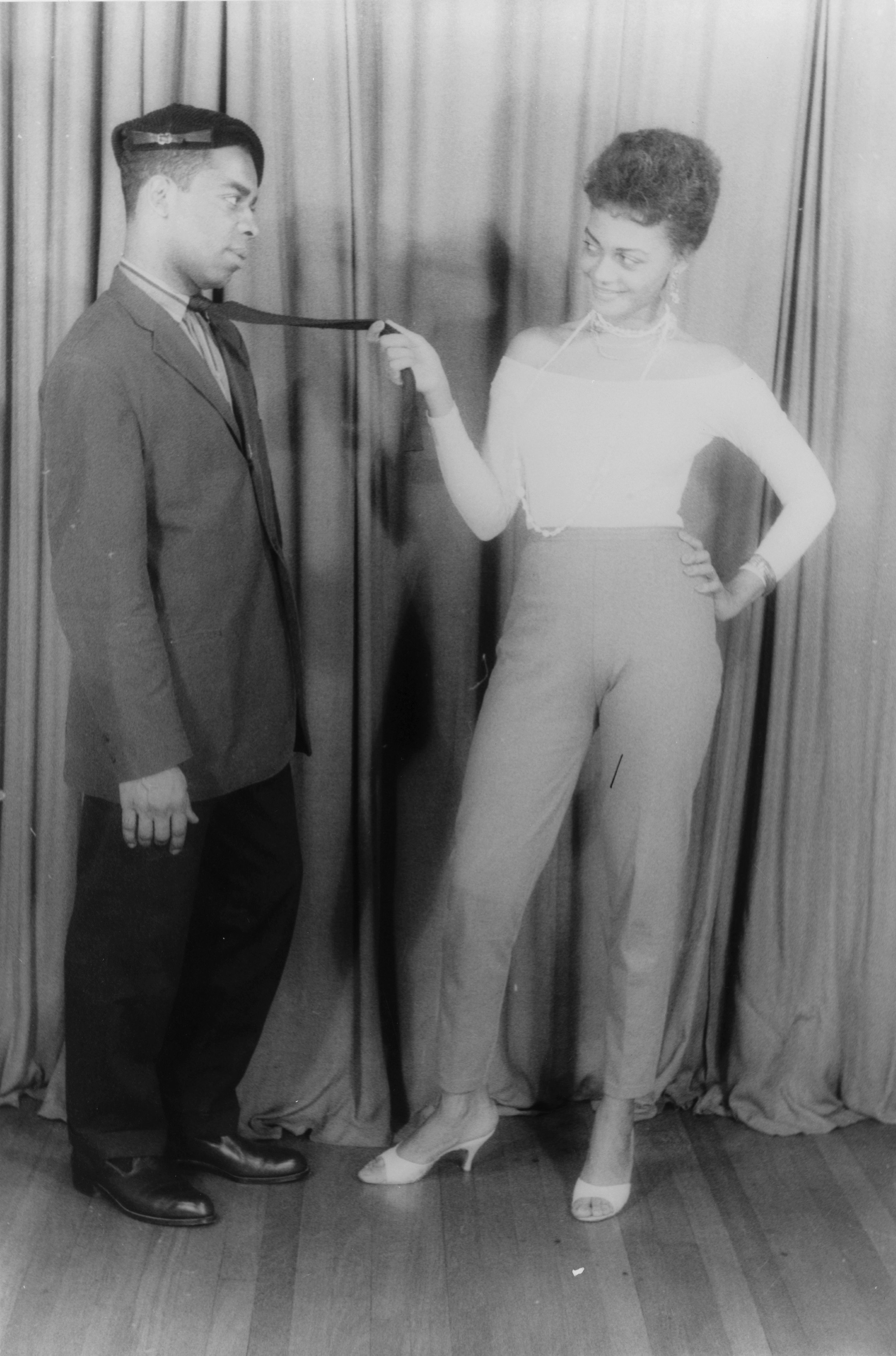 Title: Portrait of Ethel Ayler and Melvin Stewart, as Zirata and Simple (respectively) in "Simply heavenly" by Langston Hughes Physical description: 1 photographic print : gelatin silver. Notes: Forms part of: Portrait photographs of celebrities, a LOT which in turn forms part of the Carl Van Vechten photograph collection (Library of Congress).; Title derived from information on verso of photographic print.; Also available on microfilm.; Gift; Carl Van Vechten Estate; 1966.; Van Vechten number: XV PP 10.